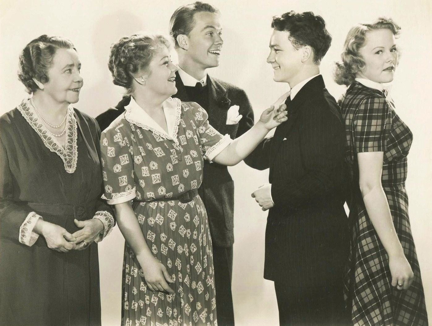 L. to R. : Florence Roberts, Spring Byington, Kenneth Howell, George Ernest & June Carlson in On Their Own - publicity still (cropped)